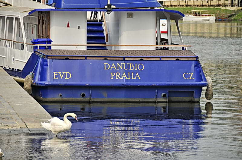 boat Danubio Česky: loď Danubio